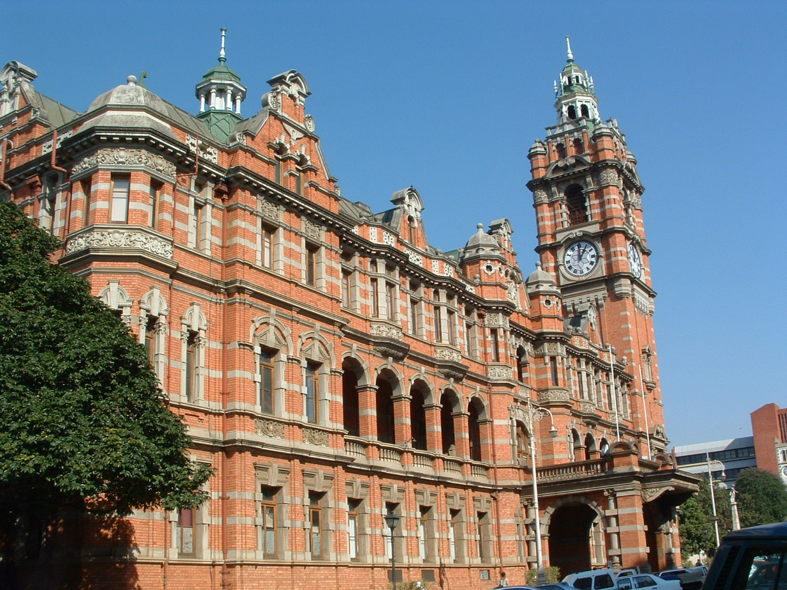 Pietermaritzburg Town Hall